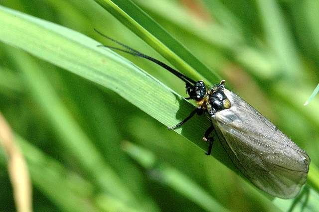 Picture taken in Commanster, Belgian High Ardennes . Species: Parachiona picicornis